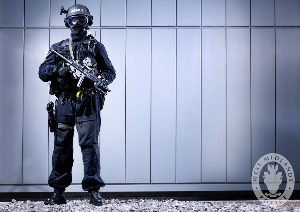 This photograph shows a West Midlands Police Firearms Officer with specialist equipment and uniform. Firearms officers are on standby around the clock to protect communities in the West Midlands against the threat of gun or knife crime. The unit is responsible for providing: An armed response to all pre-planned and spontaneous firearms incidents (using a number of Armed Response Vehicles (ARVs) patrolling the force area) Dedicated tactical advisors An armed response at Birmingham International Airport Protection for VIPs or premises Specialised methods of entry into premises All firearms training, lectures and administration Maintenance and security for all weapons and ammunition used in the force New recruits must come through a demanding 10-week course that not only tests physical and technical attributes but also temperament, mental toughness and extreme-pressure decision making. And now, for the first time, cameras have followed a group of 24 candidates through the intensive course to reveal exactly what it takes to join West Midlands Police’s Armed Response ranks. The course includes handgun and MP5 accuracy tests as well as tactical exercises on location across the region. The videos can be viewed at